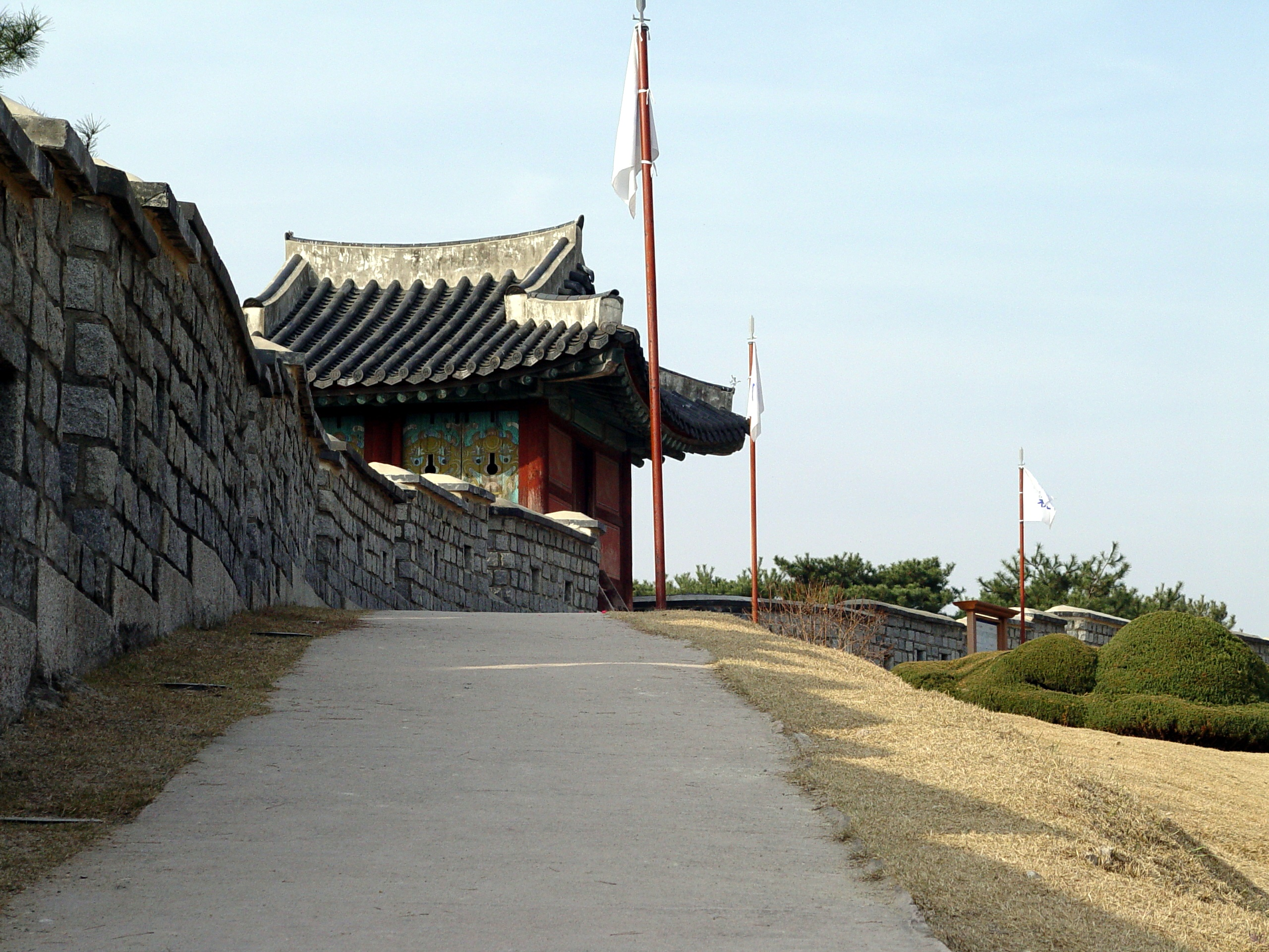 The south side of the southern Seoporu, Hwaseong Fortress, Suwon, South korea